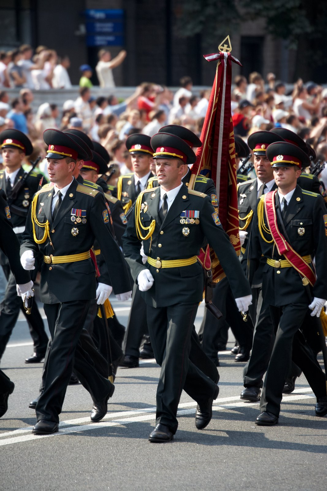 Ukrainian soldiers during the Independence Day parade in Kiev, Ukraine in 2008.